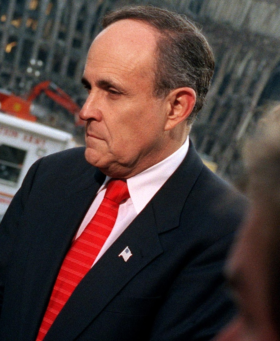 Secretary of Defense Donald Rumsfeld (left) and New York Mayor Rudy Giuliani (right) hold a joint media availability at the site of the World Trade Center disaster in lower Manhattan, on Nov. 14, 2001. Rumsfeld is visiting the site of the Sept. 11th disaster to speak to Giuliani, officials from the N.Y. Fire Department and the Office of Emergency Management.